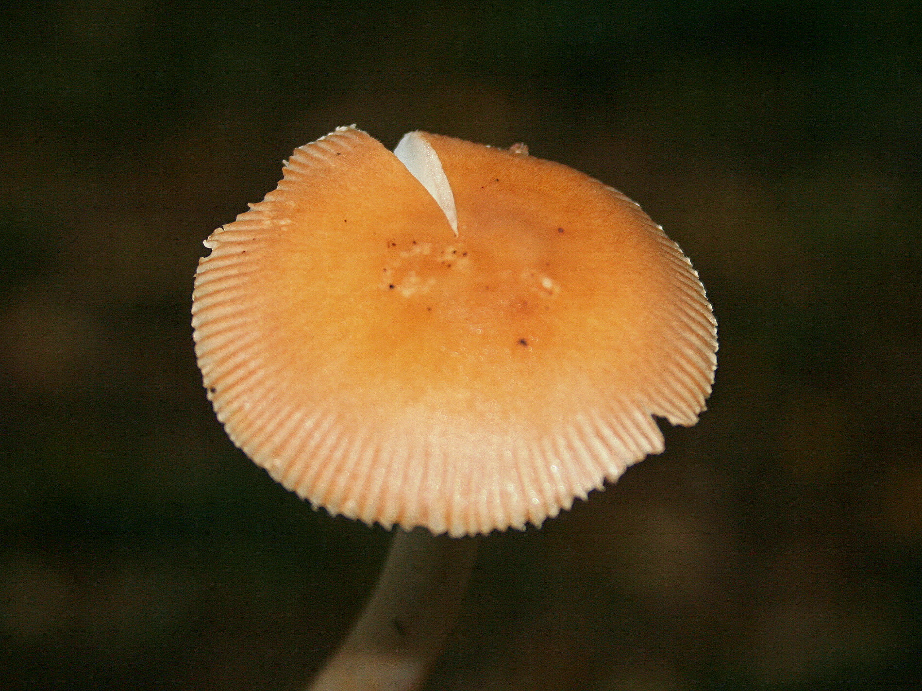 Amanita fulva, Havré, Belgium